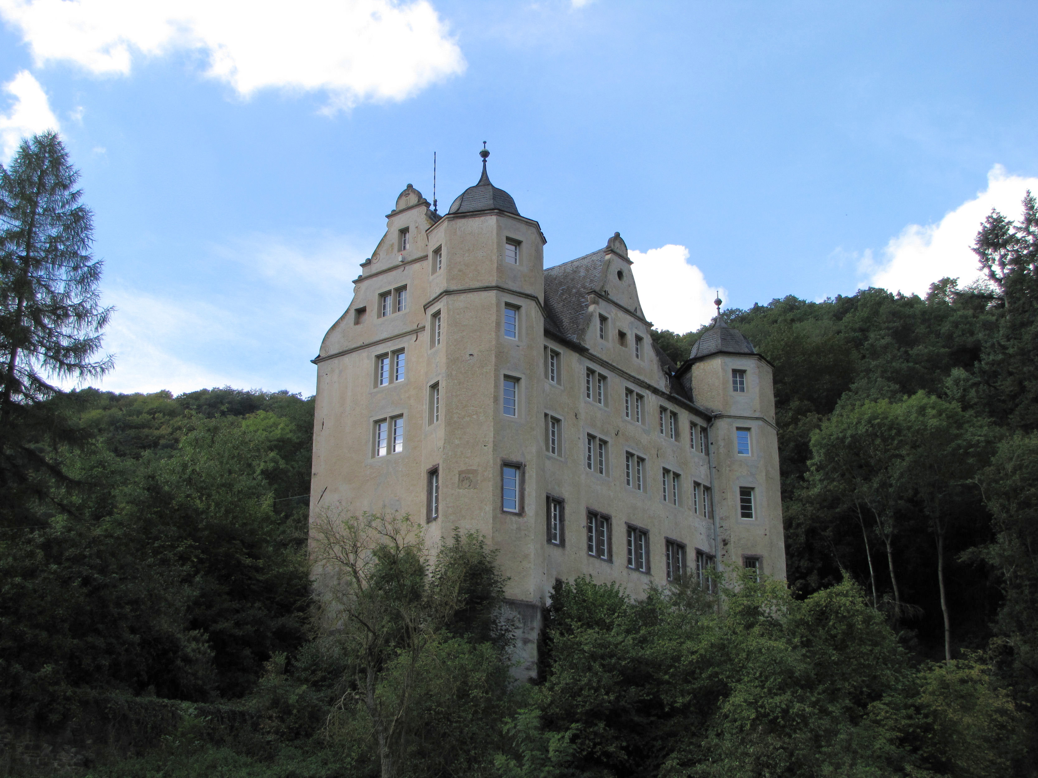 Schweppenburg nearby Brohl-Lützing